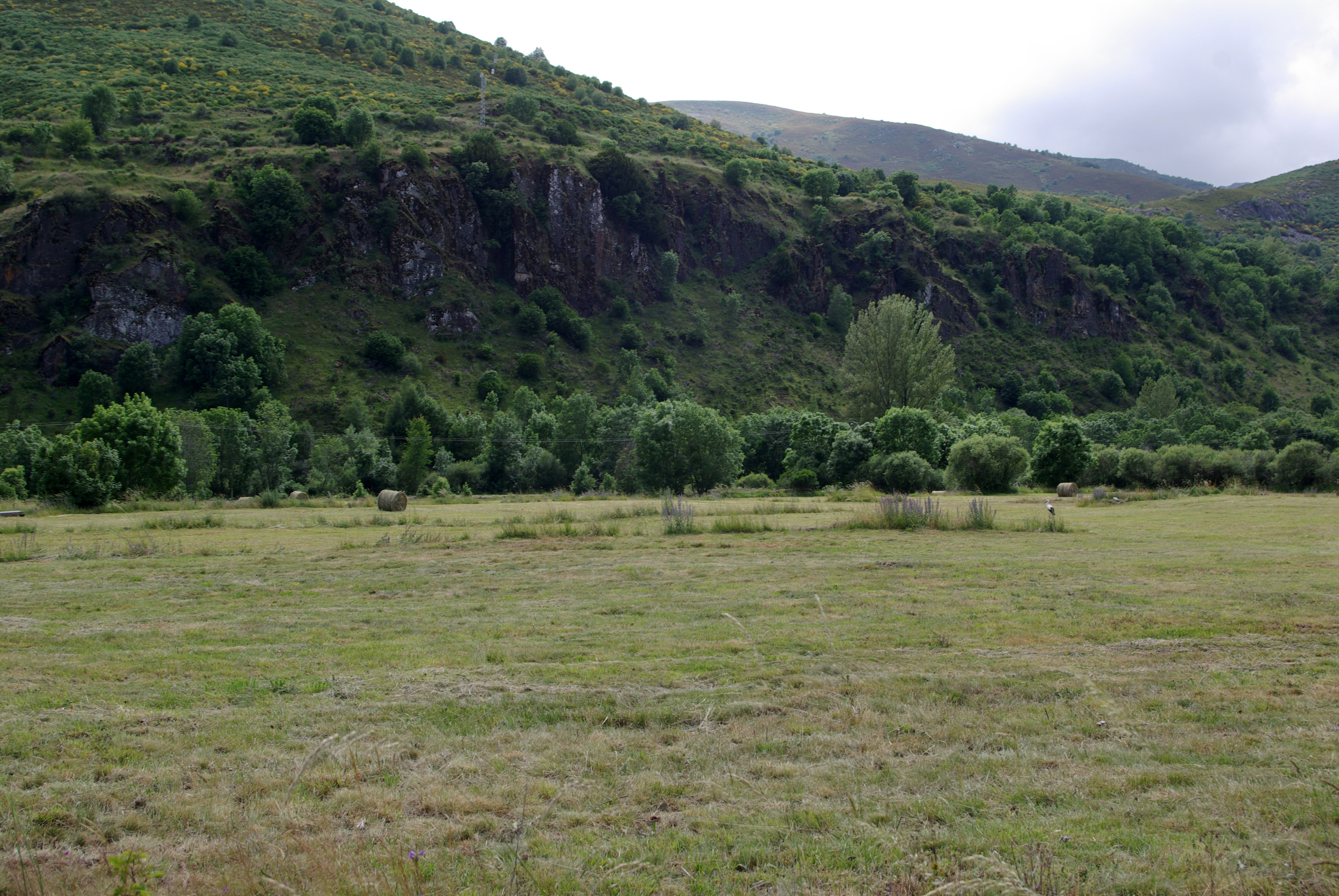 Vallegordo valley in Posada de Omaña (Murias de Paredes, León, Spain)